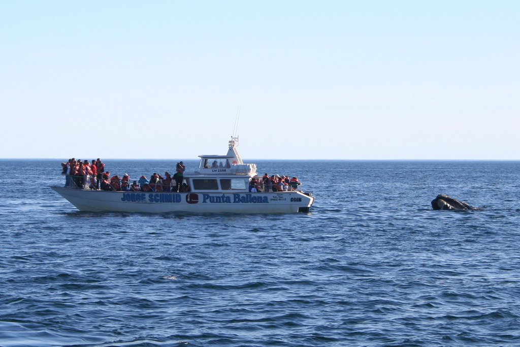 Southern right whale. Valdes Peninsula, Patagonia (Argentina).